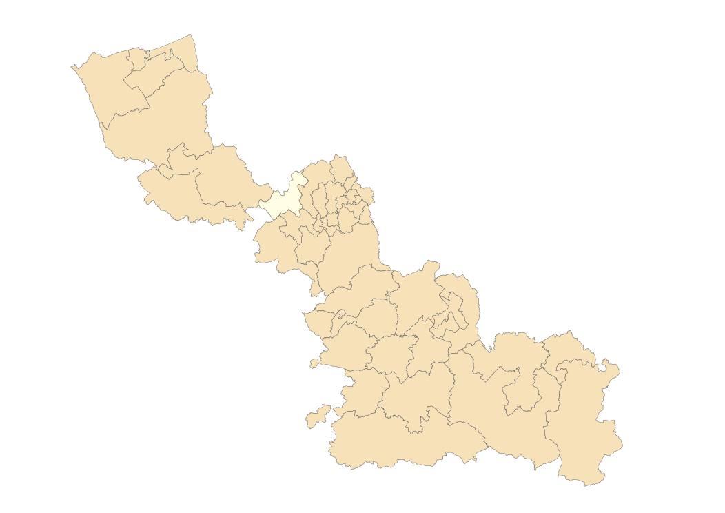 Situation des cantons du Nord